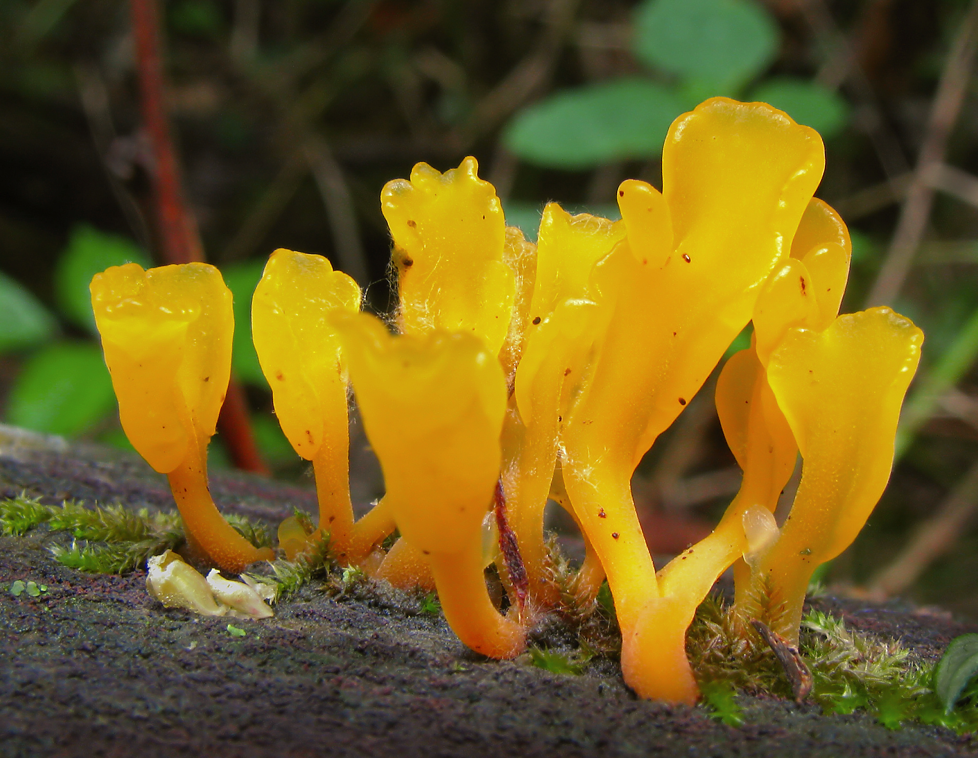 Dacryopinax spathularia (Schwein.) G.W. Martin Location: Strouds Run State Park, Athens, Ohio, USA Observation Notes: I think these might be the same jellies found here: For more information about this, see the observation page at Mushroom Observer.